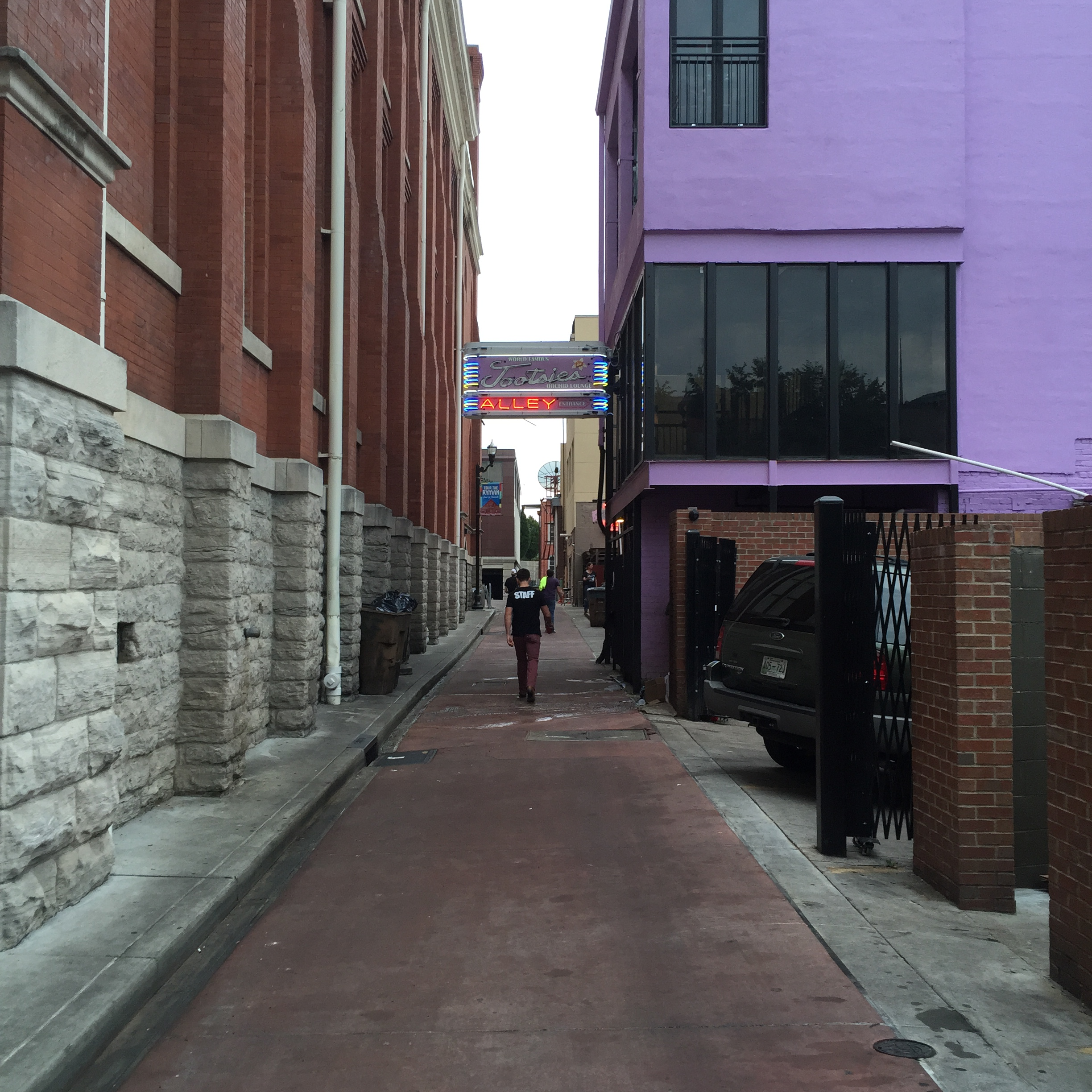 Alley between the Ryman Auditorium and the rear of Broadway "Honky Tonks" in Nashville, Tennessee